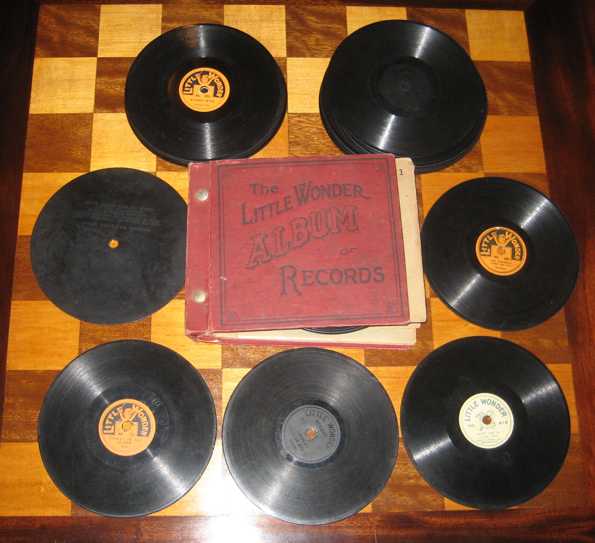 Selection of "Little Wonder" gramophone records and a record album.